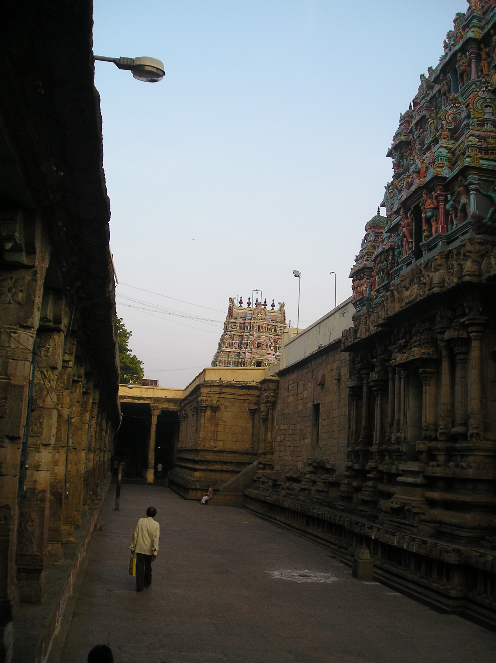 Koodal Azhagar koil view